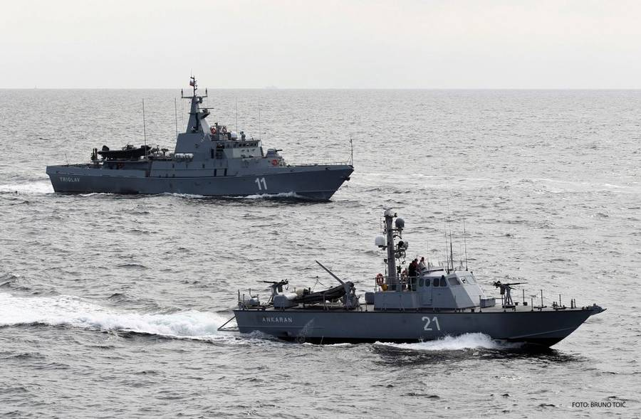 Ships of Slovenian Armed Forces. Super Dvora Mk II-Ankaran and Project 10412-Triglav